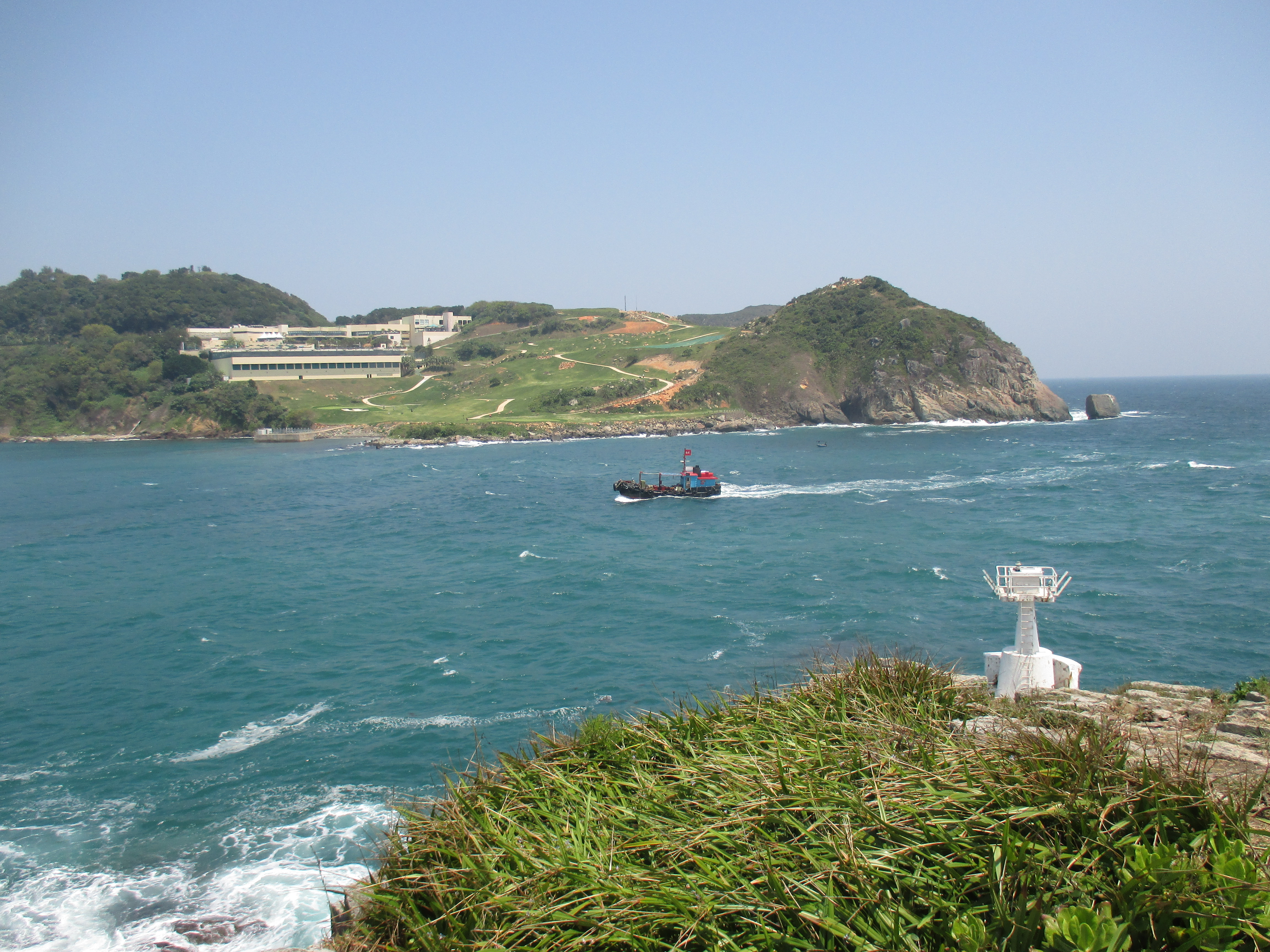 Tung Lung Chau North Beacon